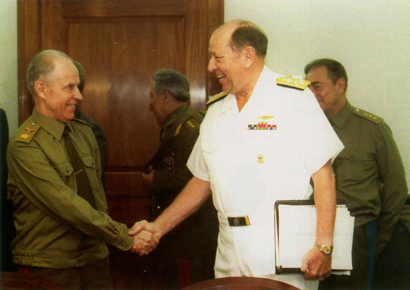 Admiral William Crowe welcomes Marshal Sergei Akhromeyev, Chief of the Soviet General Staff, to "The Tank," the JCS Conference Room in the Pentagon, 8 July 1988.